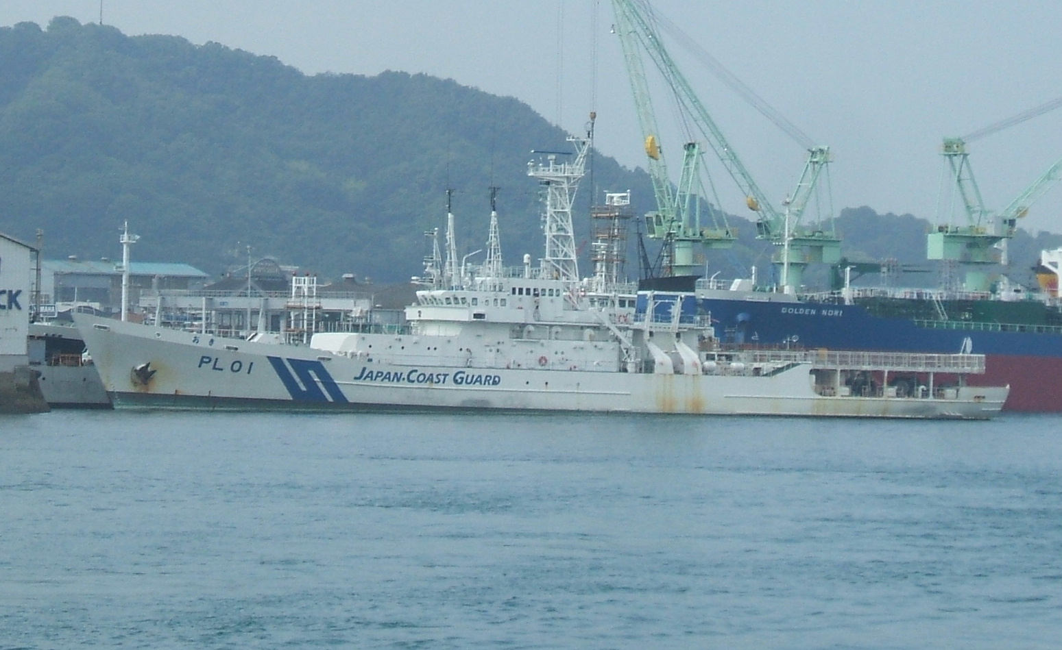 JCG Oki, PL 01